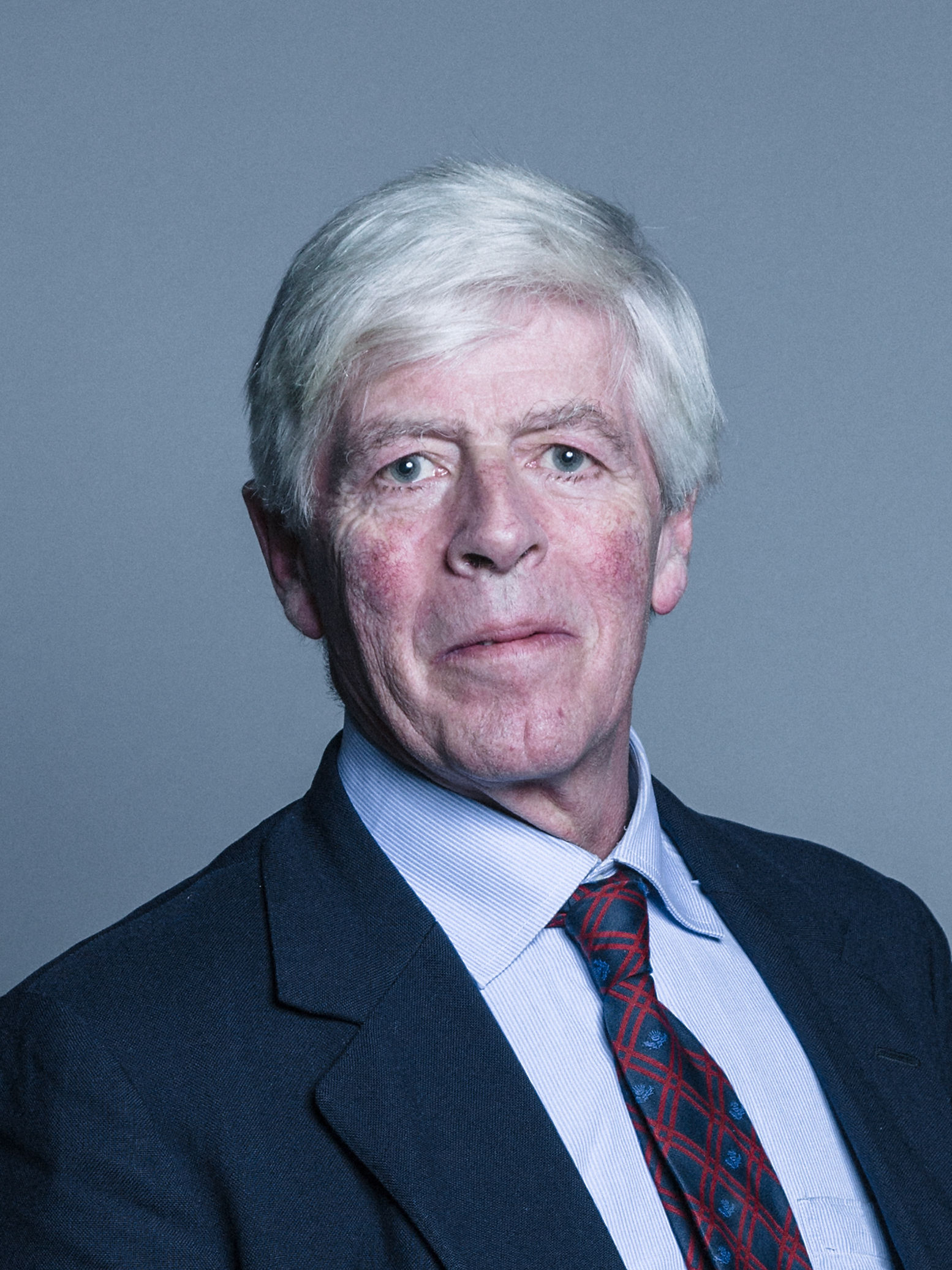 Official portrait of The Earl of Lindsay